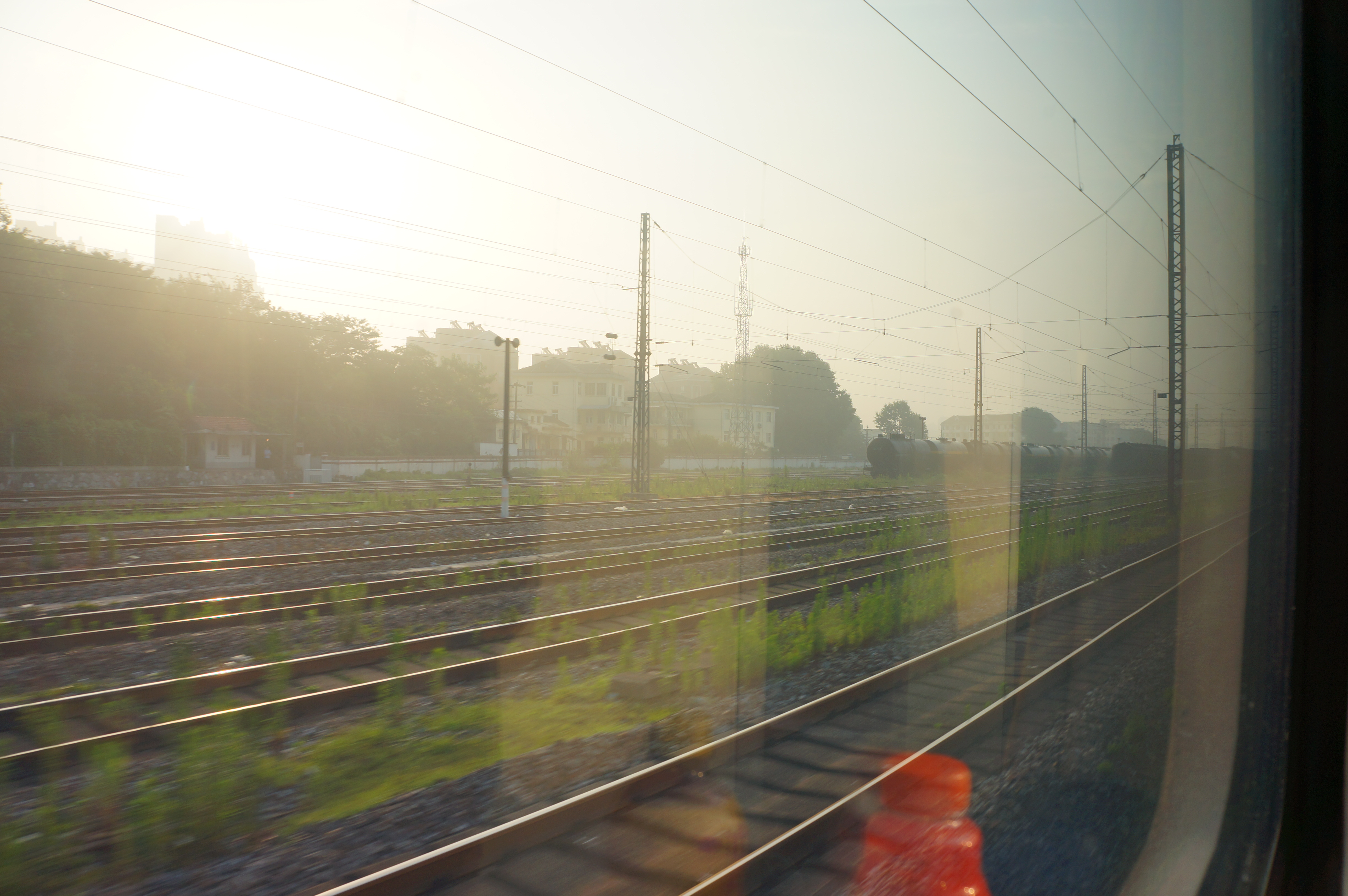 201606 Z9 passes Zhenjiangdong Station